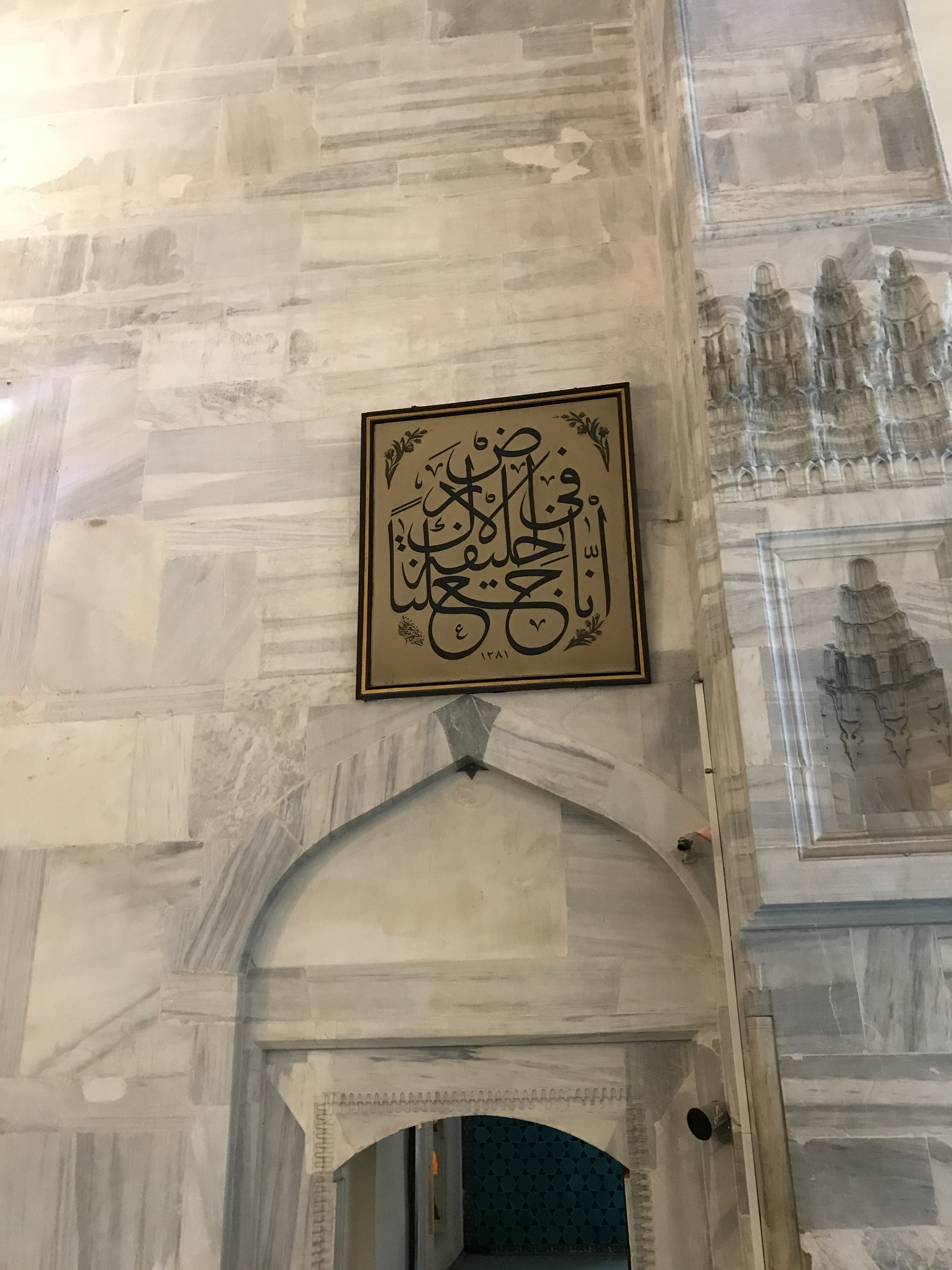 Green Mosque of Bursa, Turkey, 2017. Green Mosque (Turkish: Yeşil Camii, "Yeşil Mosque"), also known as Mosque of Sultan Mehmed I, is a part of the larger complex (a külliye) located on the east side of Bursa, Turkey, the former capital of the Ottoman Turks before they captured Constantinople in 1453. The complex consists of a mosque, türbe, madrasah, kitchen and bath.